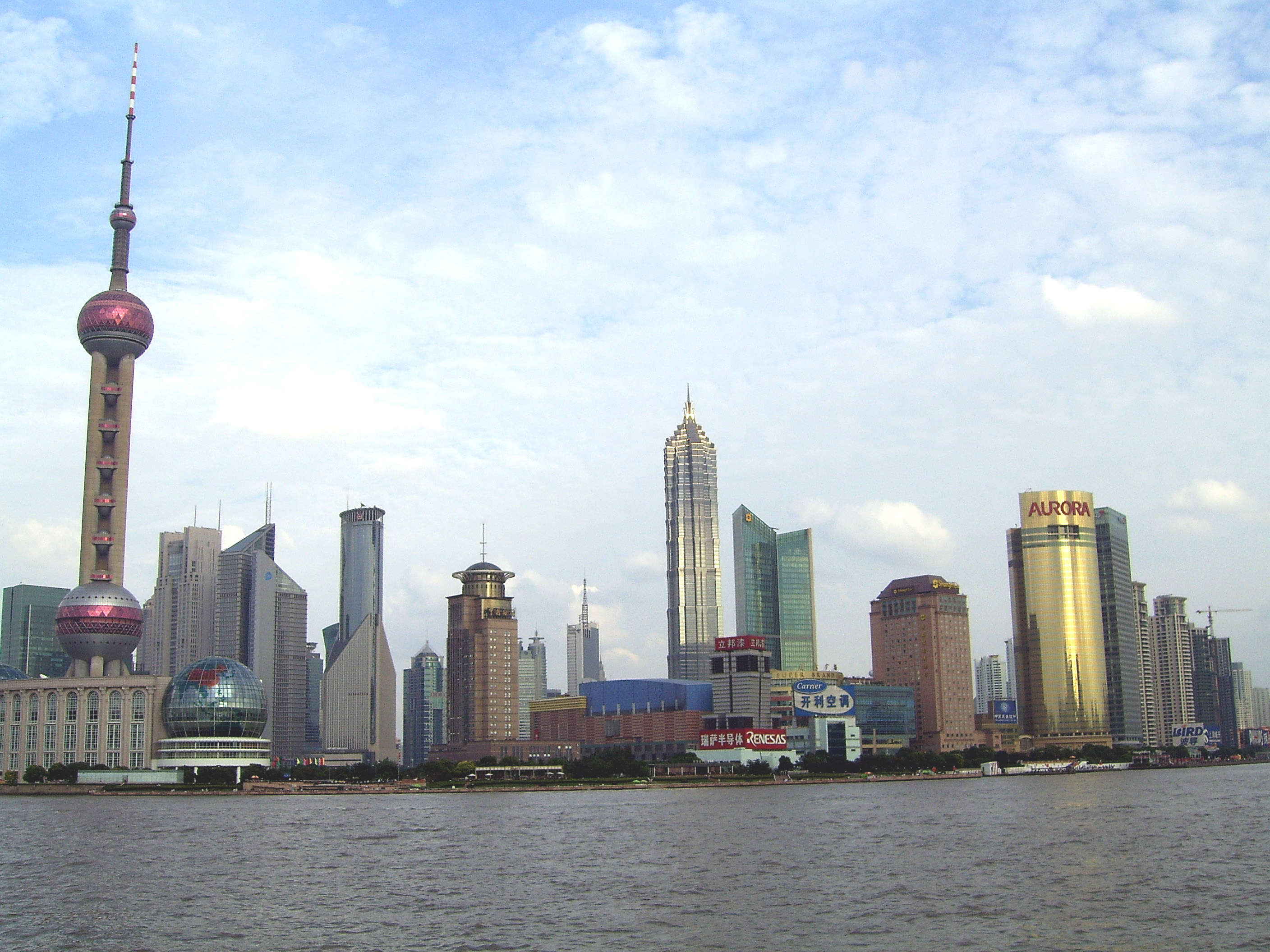 从上海外滩隔江望浦东建筑群 Looking at Pudong buildings from the Bund in Shanghai